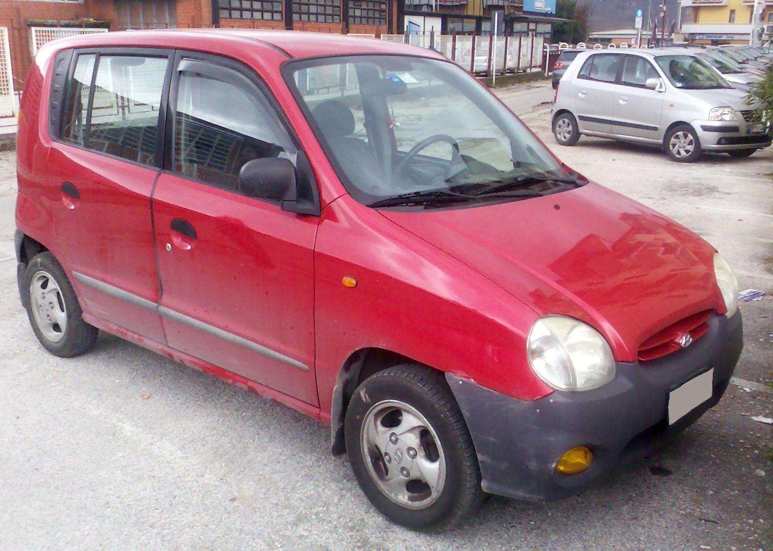 1998 Hyundai Atos front